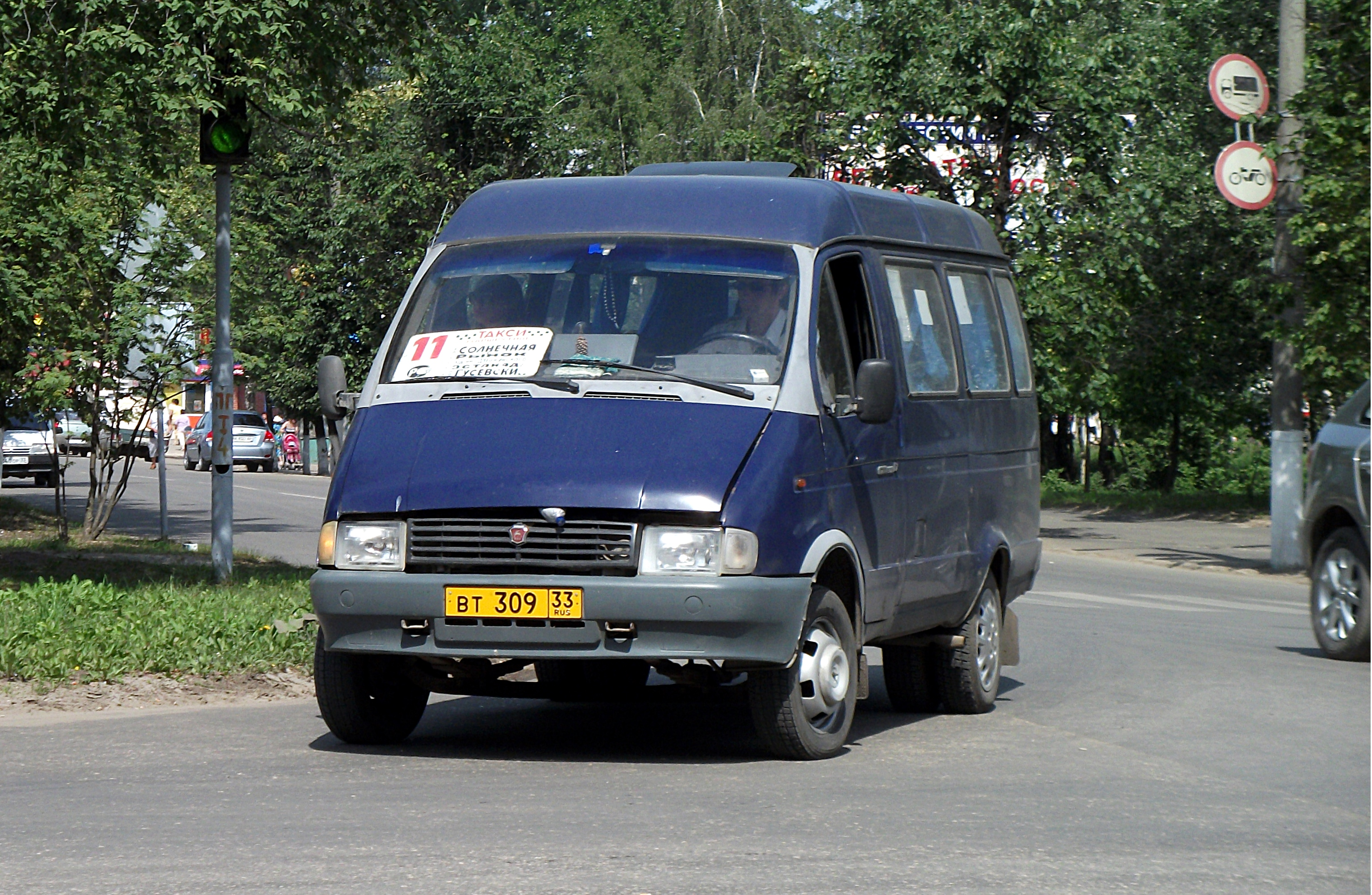 GAZelle bus {reg. ВТ 309 33) in Gus-Khrustalny, Vladimir Oblast, Russia.